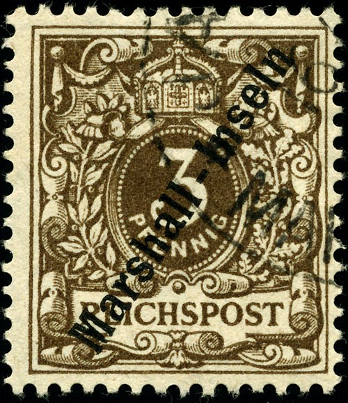 Marshall Islands 3-pfennig overprint stamp of 1900